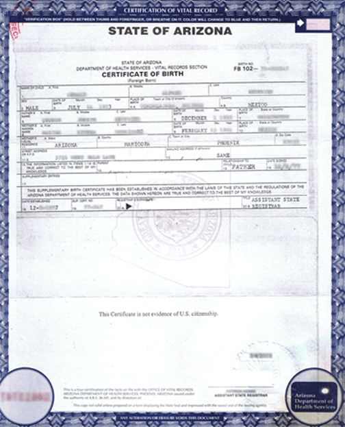 An Arizona certificate of foreign birth for an overseas-born adoptee.